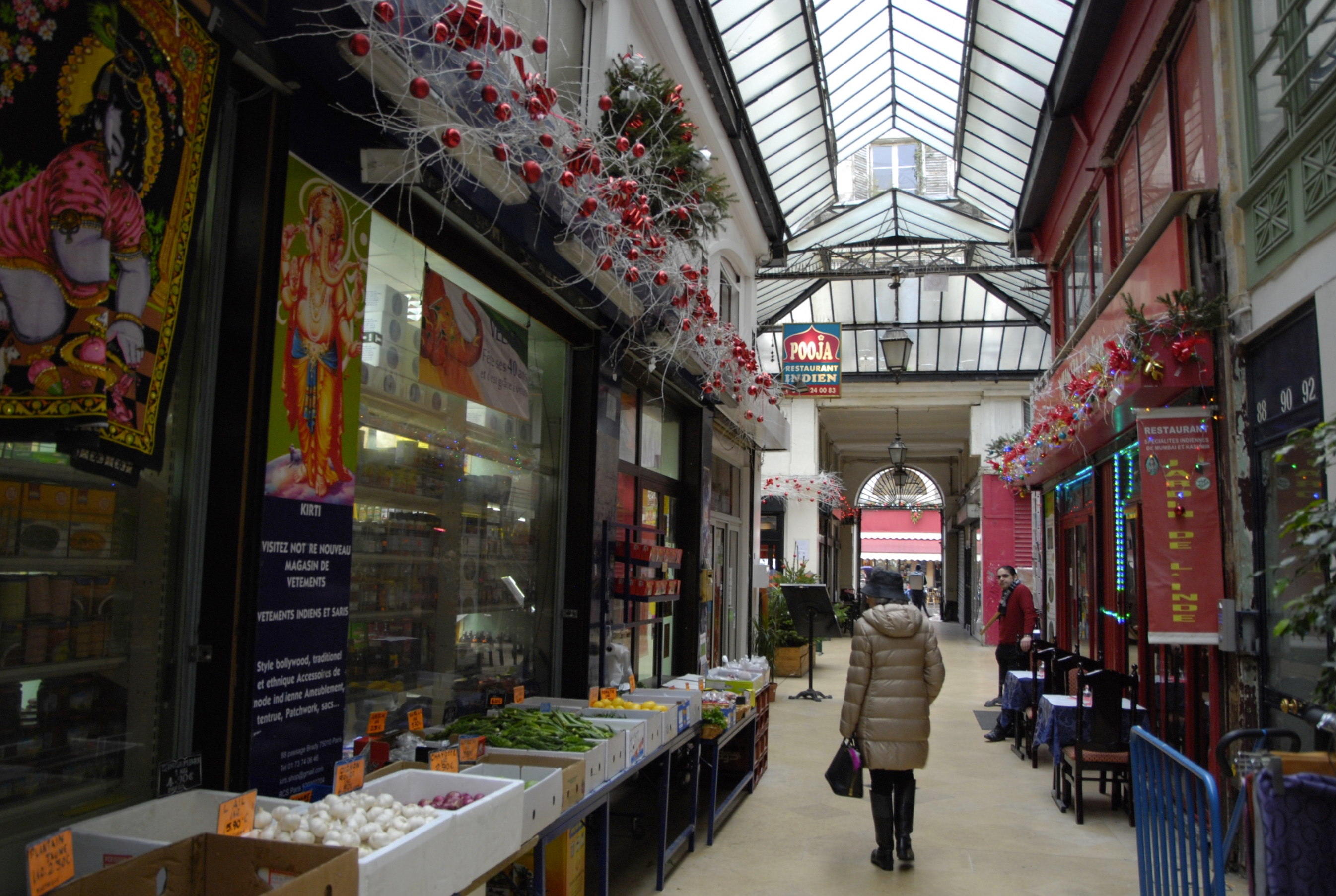 Passage Brady